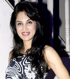 Smita Gondkar at Manik & Preethi Soni's 22nd wedding anniversary